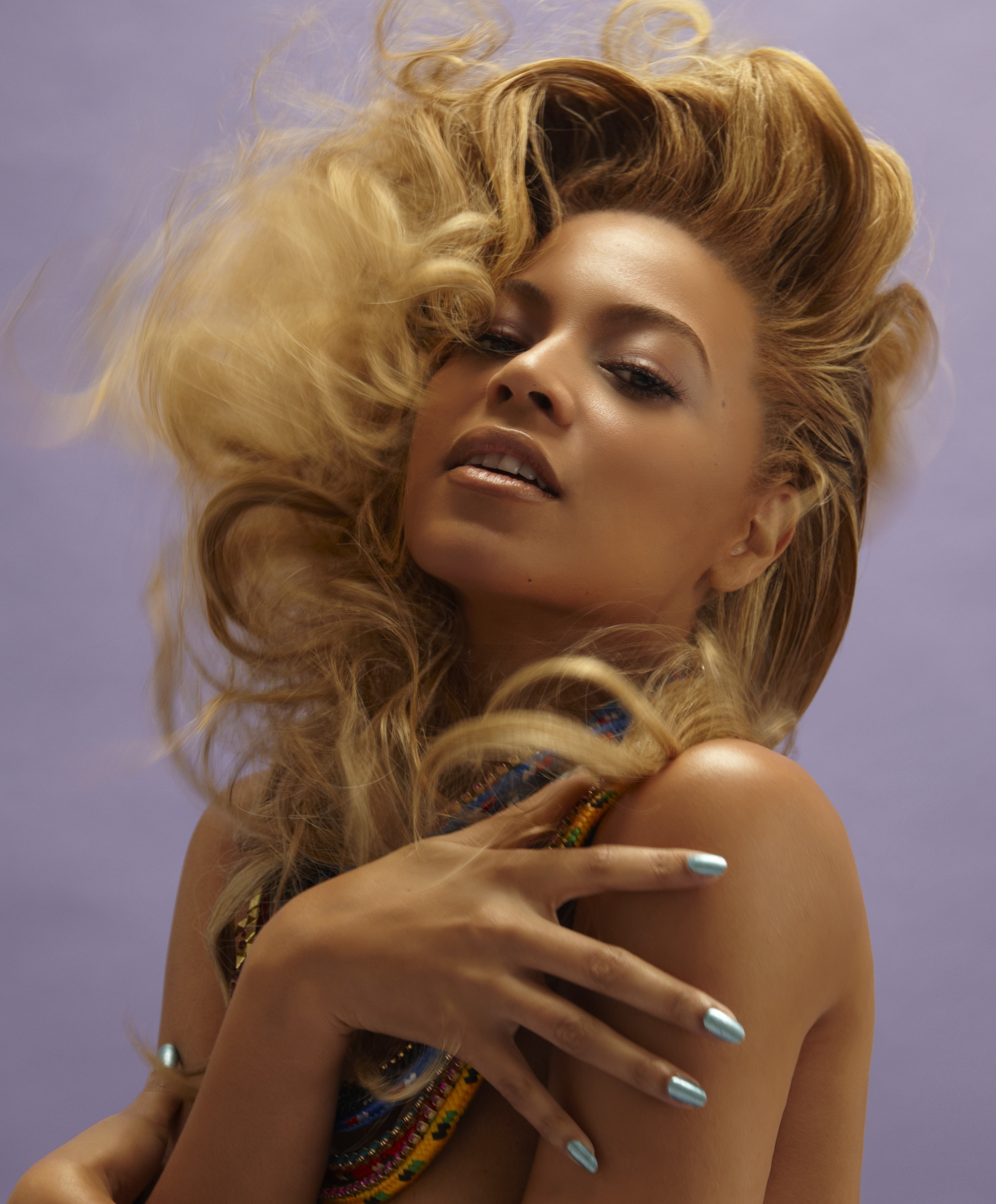 Authorized photograph of Beyoncé Knowles Māori: He whakaahua ōkawa e āhuahua ana ki Beyoncé Knowles. I whakaahuatia te whakaahua e Tony Duran mō Parkwood Pictures Entertainment LLC.